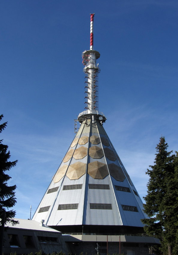 Transmitter station Černá hora